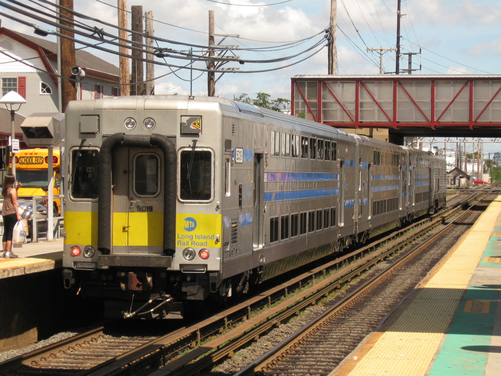 Train #6506 sits at Mineola, picking up customers ahead of departure.